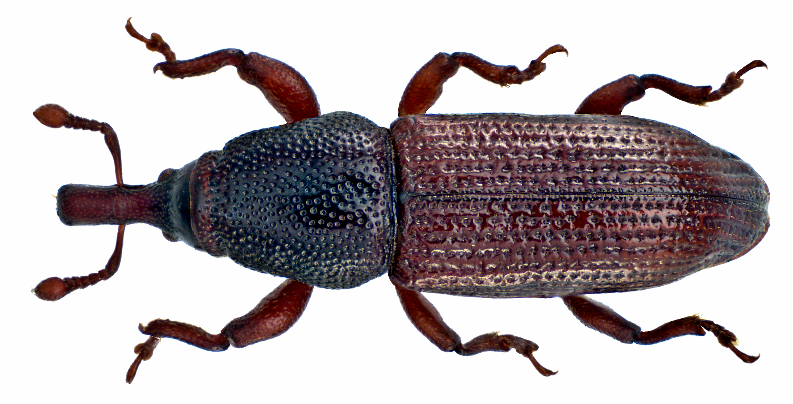 Family: Curculionidae Size: 3,4 mm (2,7 to 4,0 mm) Distribution: South and West Europe, England Ecology: lives in rotting wood of buildings Location: Ireland, Killarney Data under mount, P.Harwood coll., Pres. 1957 by Mrs. P.Harwood, 5-1958 Coll. Oxford University Museum of Natural History Photo: U.Schmidt, 2014